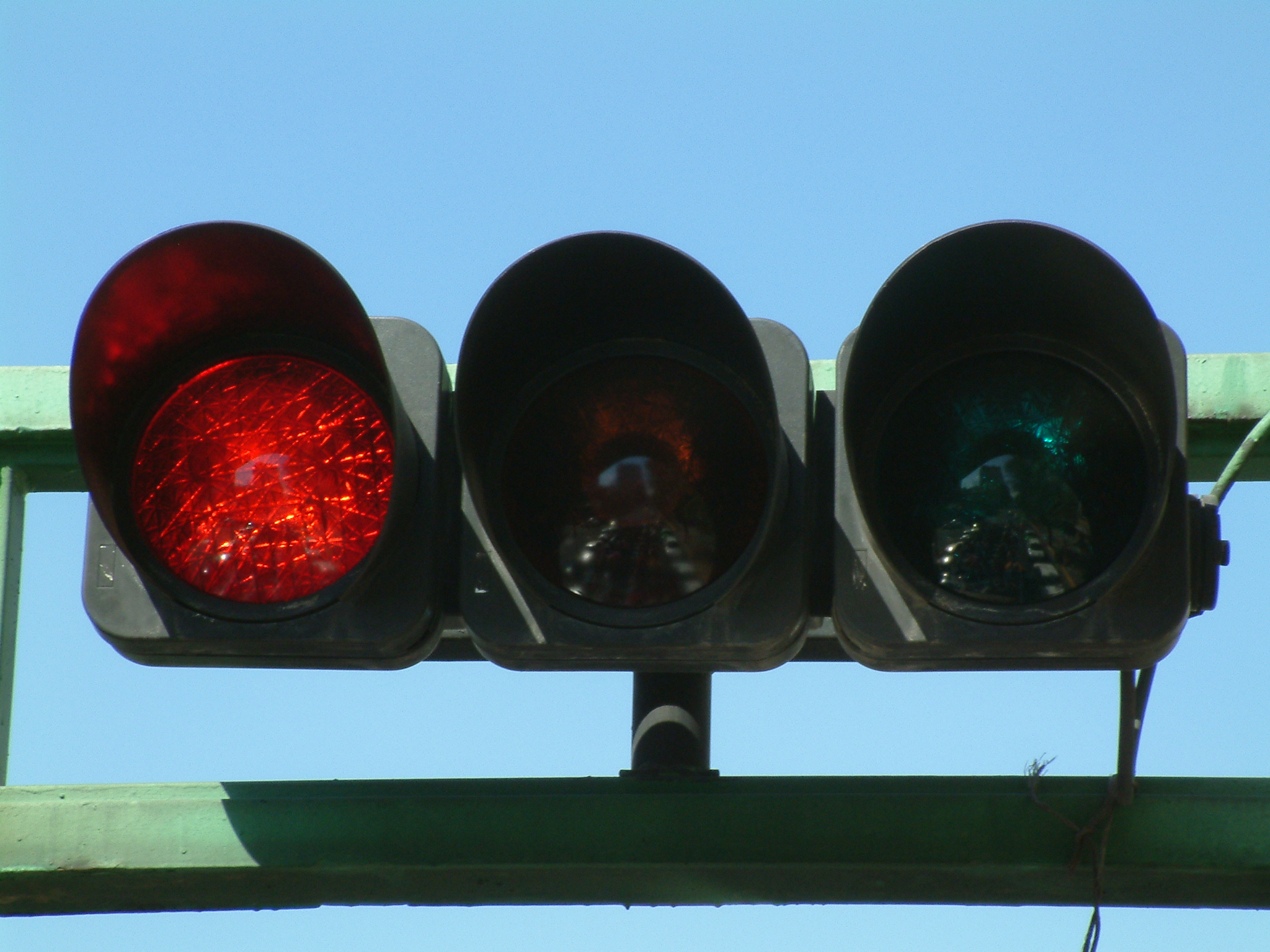 (no original description) - A traffic light showing red.